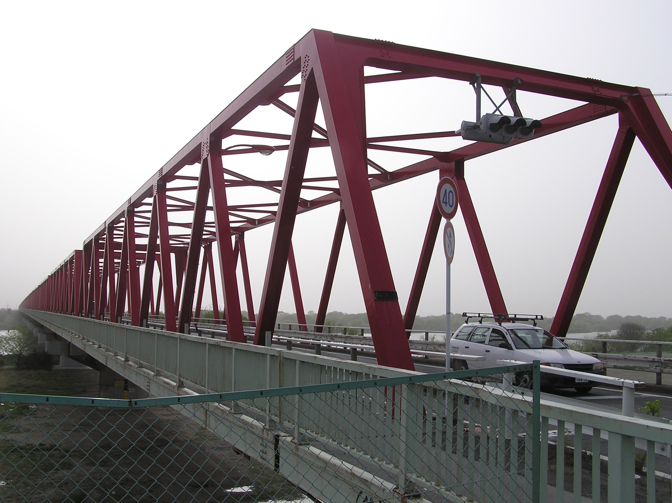 The Tokai Bridge (Tokai Ohashi) over the Kiso and Nagara Rivers on the border of Aichi and Gifu Prefectures, Japan